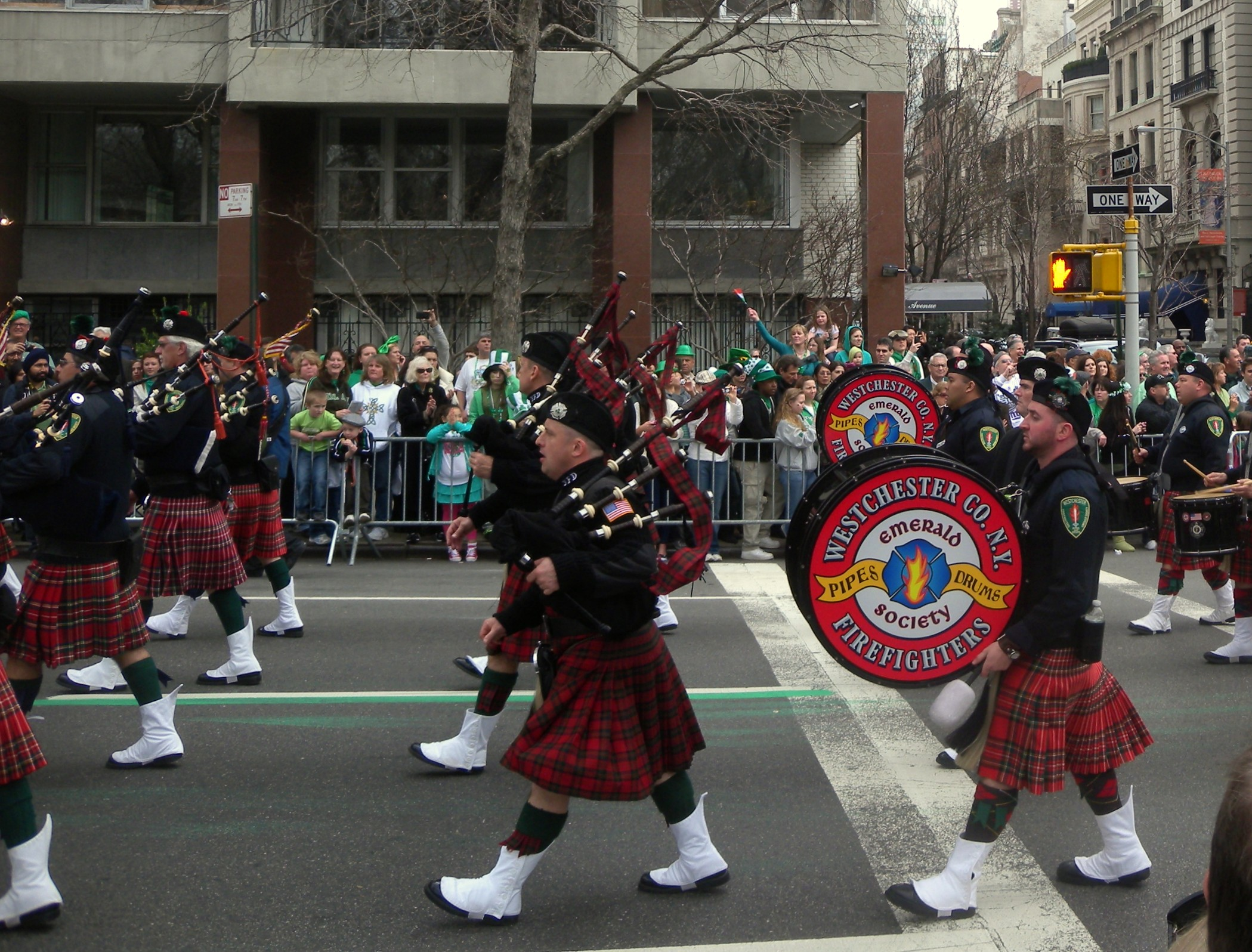 Emerald Society Westchester Fire crossing 67th Street.